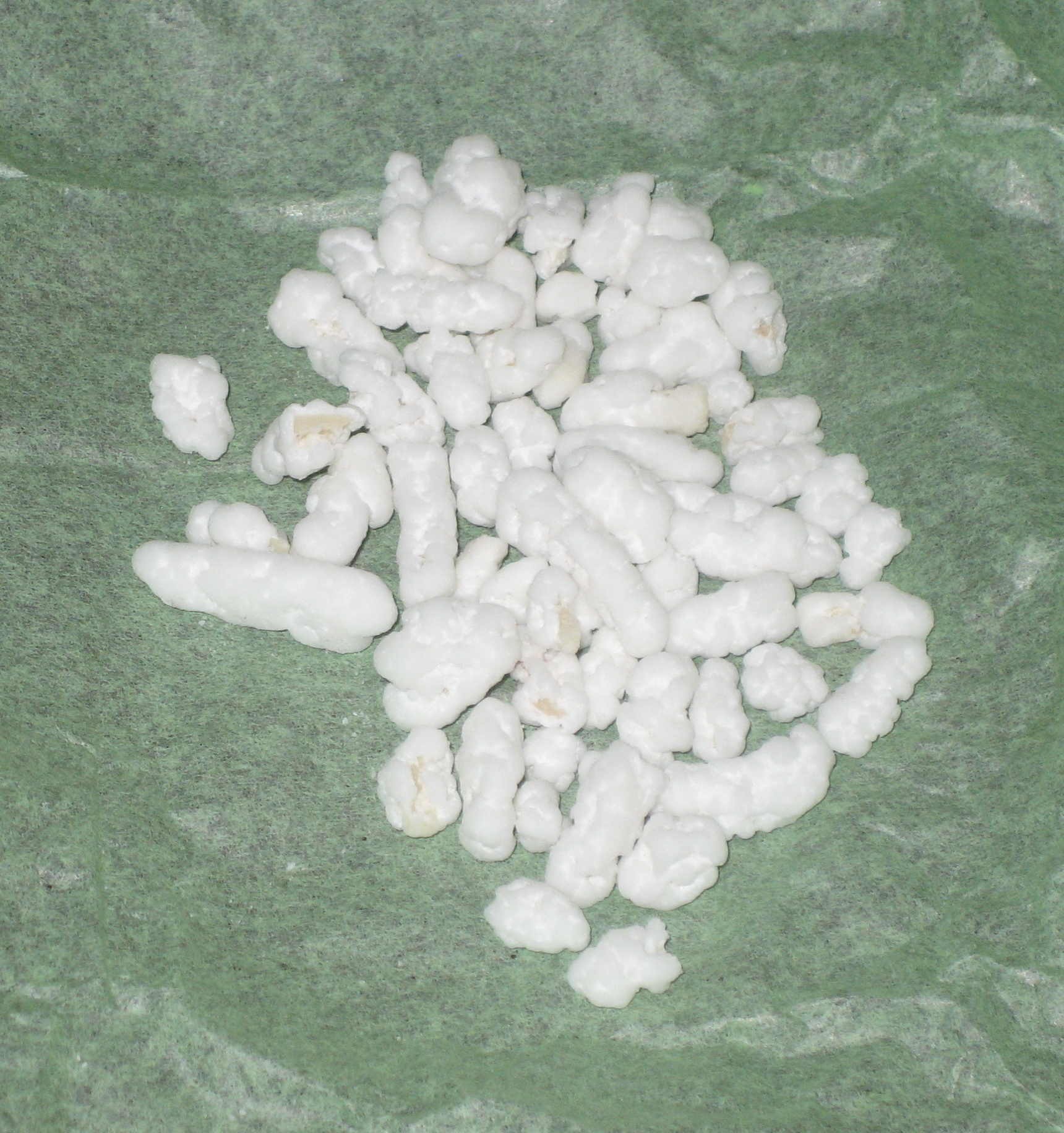 Almond noghl is an Iranian traditional sweet often served at weddings.